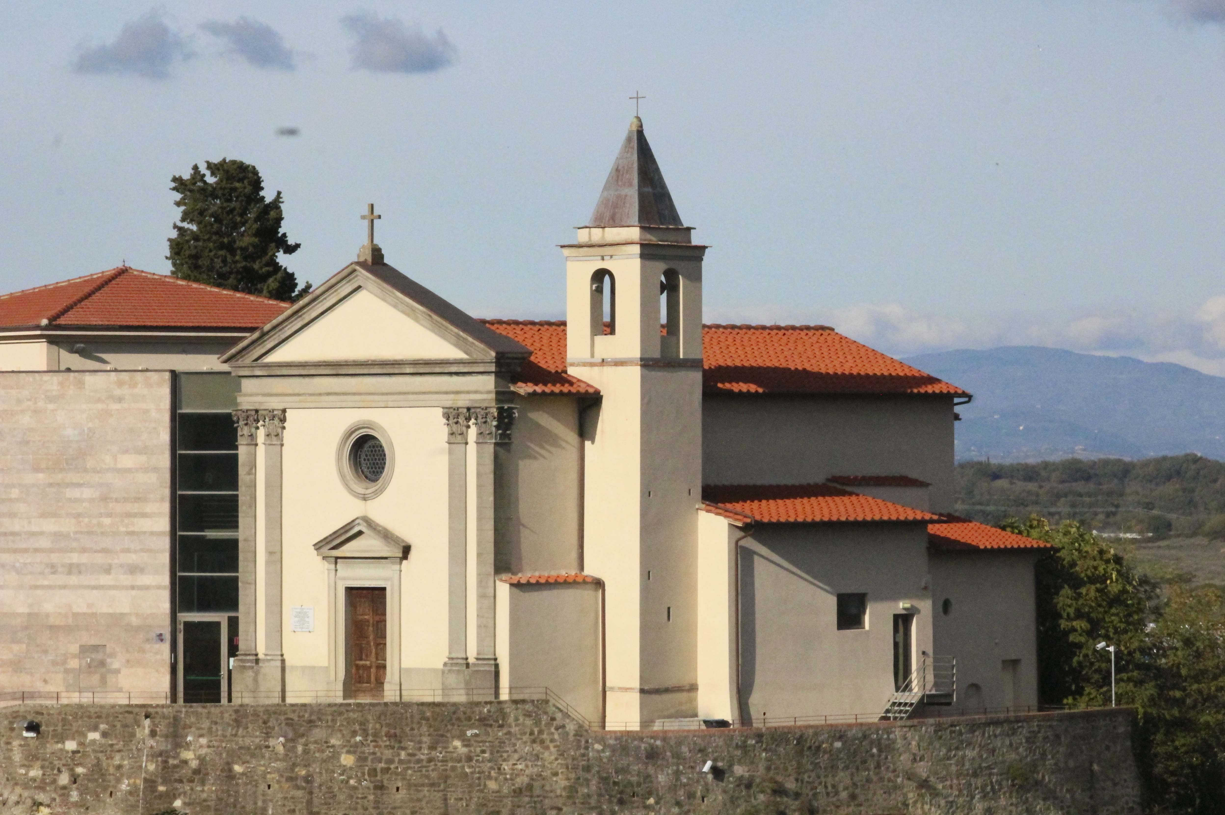 Church San Donato, Borgo Vecchio, Castelnuovo dei Sabbioni, hamlet of Cavriglia, Province of Arezzo, Tuscany, Italy